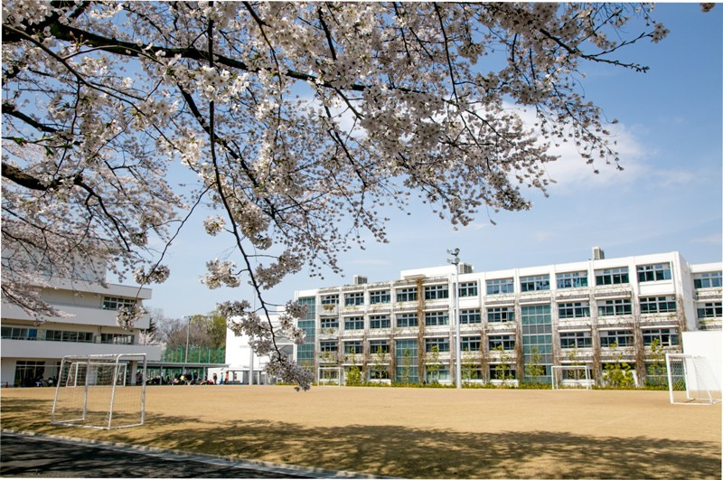 Secondary school building